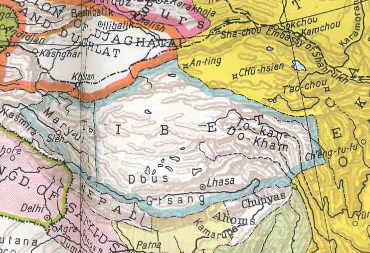 Tibet (in blue), located west of the Ming Empire (in yellow), as per 1415. Map drawn by German Georg Westermann in 1935.